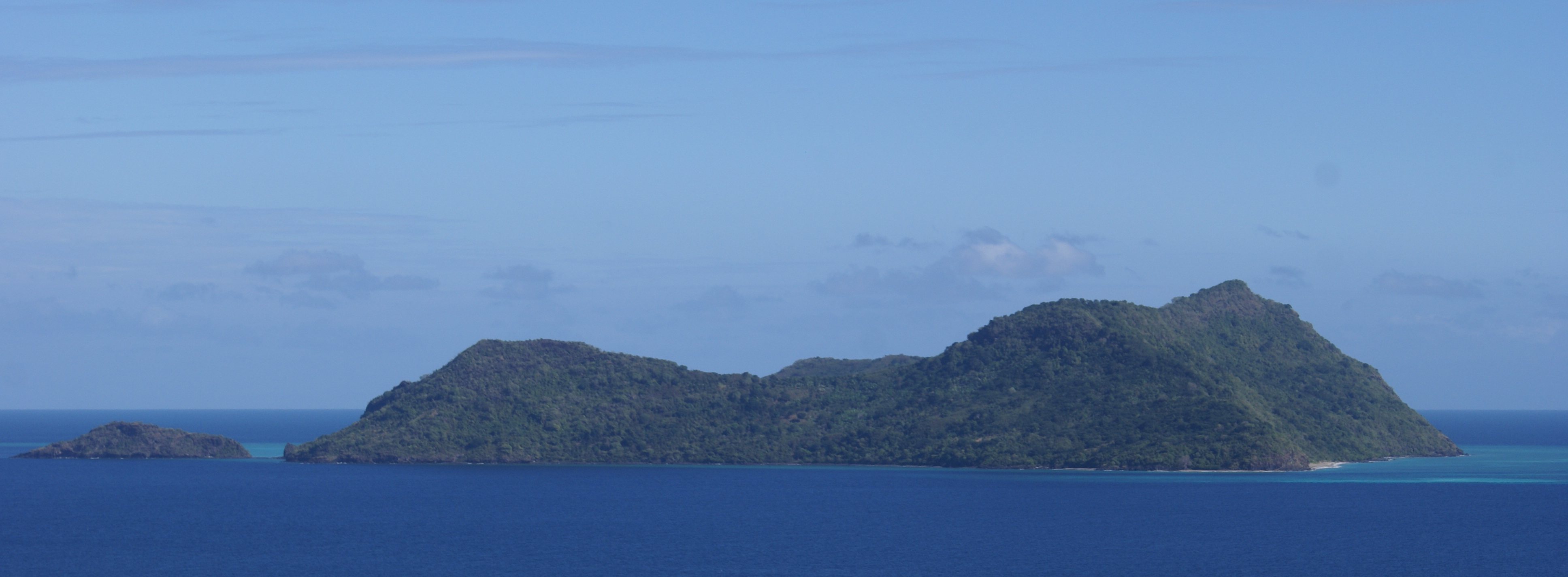 Mtsamboro islet (Mayotte), seen from SW from the village of Mtsahara, on the far left the cape of Rassi Komé